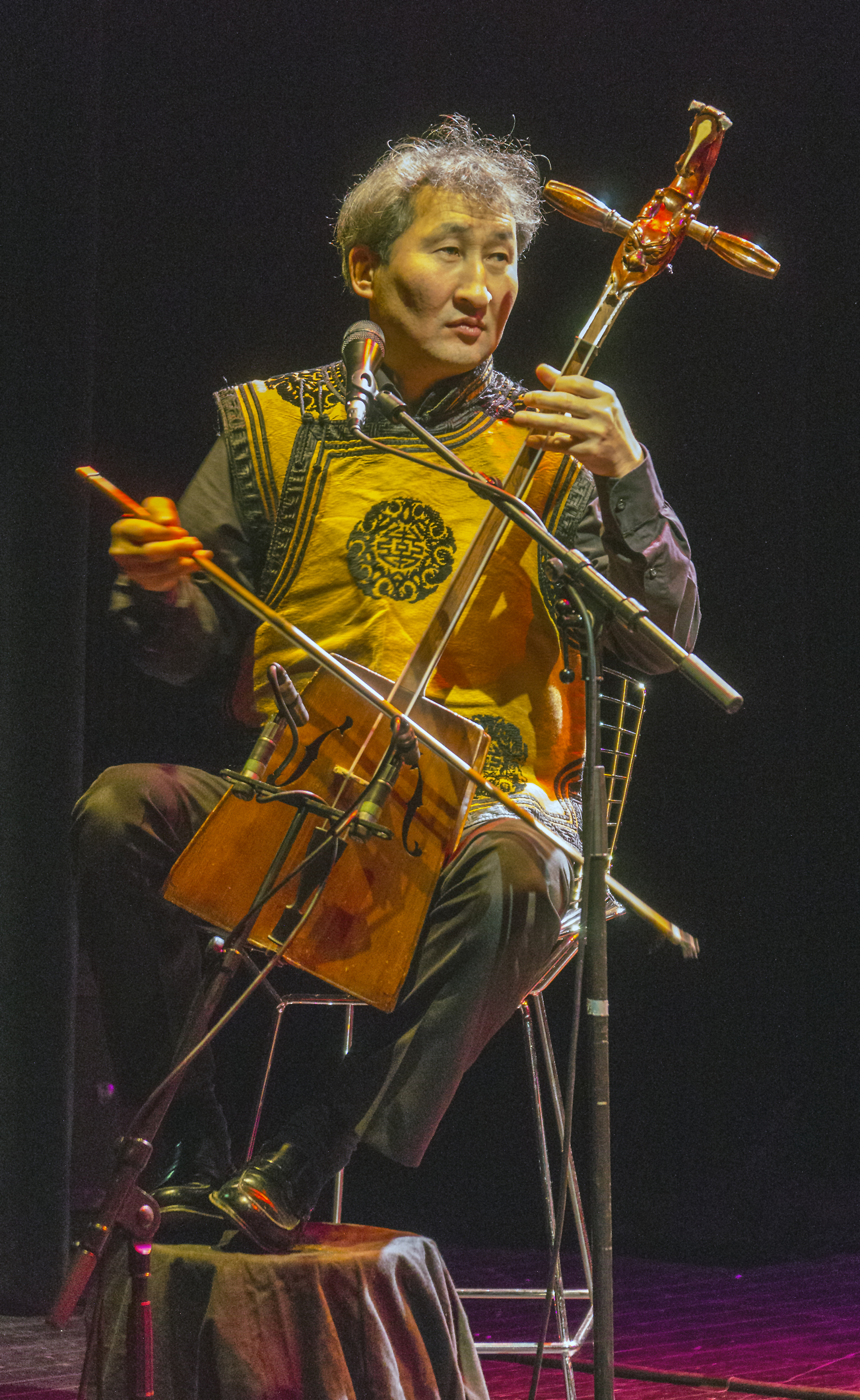 Enkhjargal Dandarvaanchig together with the group Violons Barbares during a concert in the cultural center Neumünster in Luxembourg